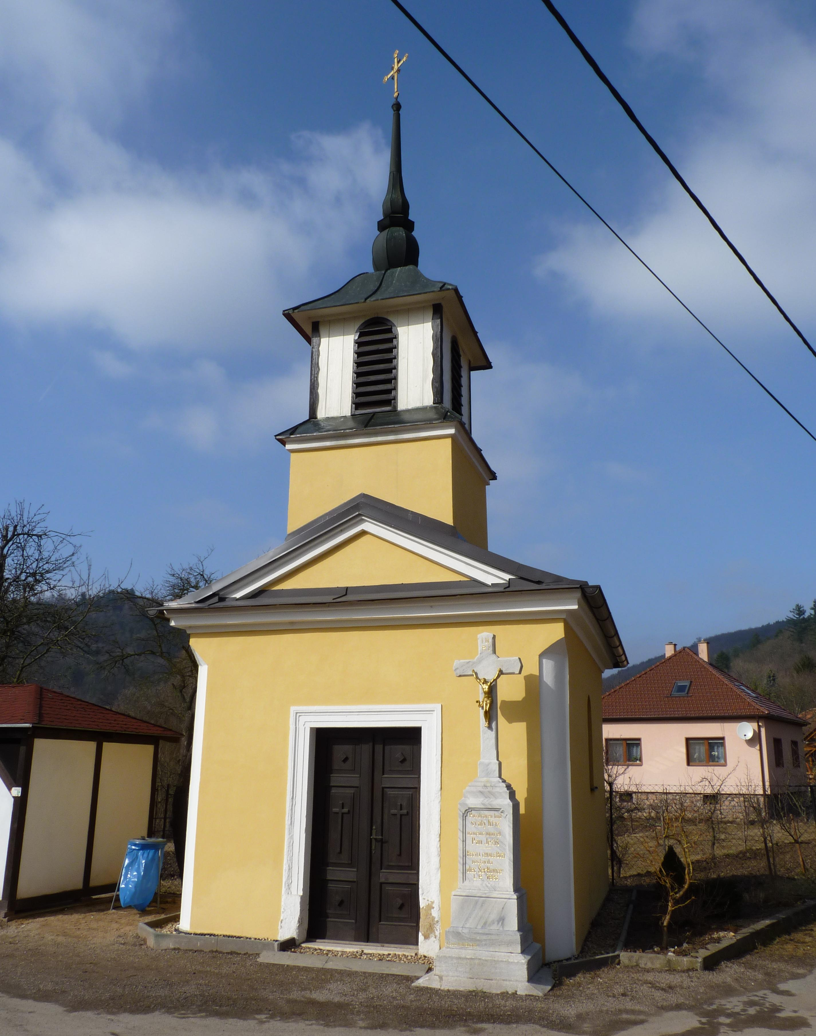 Šerkovice in Brno-Country District, South Moravian Region, Czech Republic